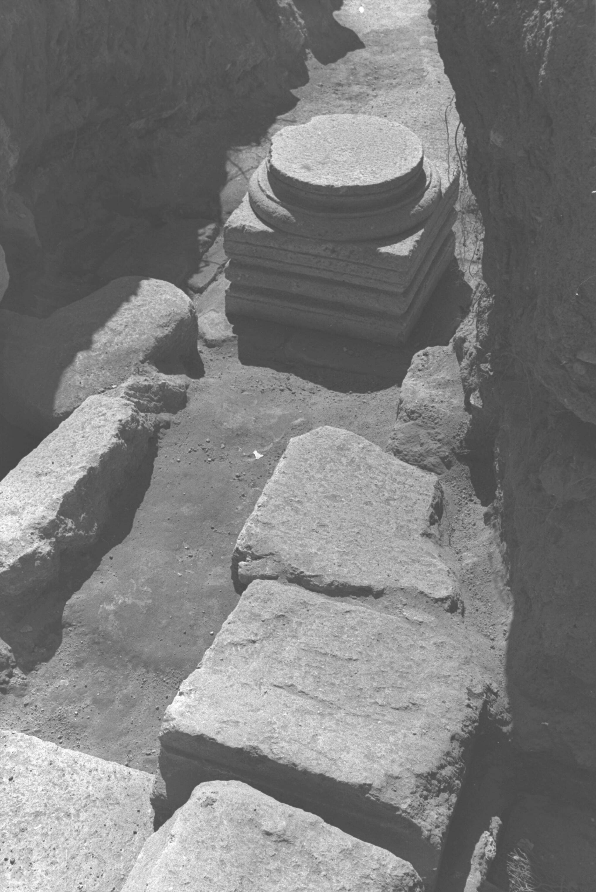 The remains of a 3rd century synagogue in Yafa an-Naseriyye in the Galilee